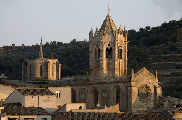 Monestir; Vallbona de les Monjes; Catalunya, Lleida, Spain; ref: PM_018944_E_Vallbona_de_les_Monjes; ; ; Photographer: Paul M.R. Maeyaert; © Paul M.R. Maeyaert; ; Cultural heritage; Europe/Spain/Vallbona de les Monjes